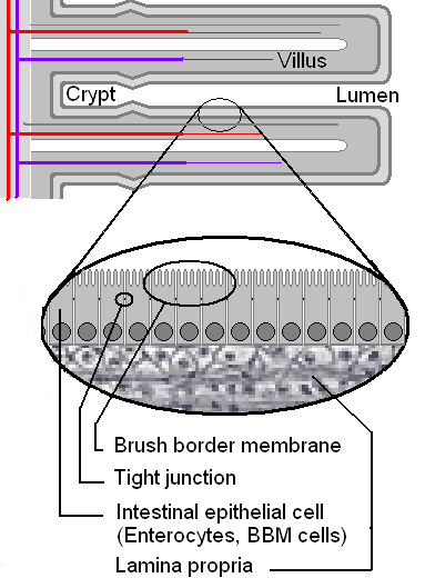 This illustration shows a 2 small intestinal villi highlight the brush border cells overlying the lamina propria (derived from Image:Gray1059.png, uploaded on 18:30, 23 January 2007, and originally published in 1918 by Gray's Anatomy). The image highlights the luminal side of the brush-border membrane and illustrates the tight junctions betweens the cells. Image was made with paintbrush. Gray1059.png